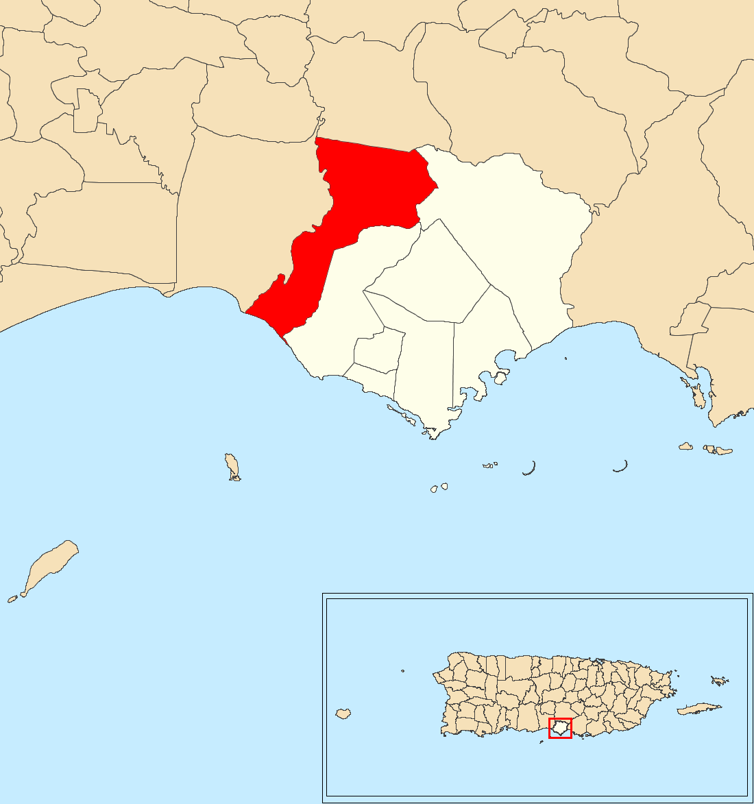 Descalabrado, Santa Isabel, Puerto Rico locator map